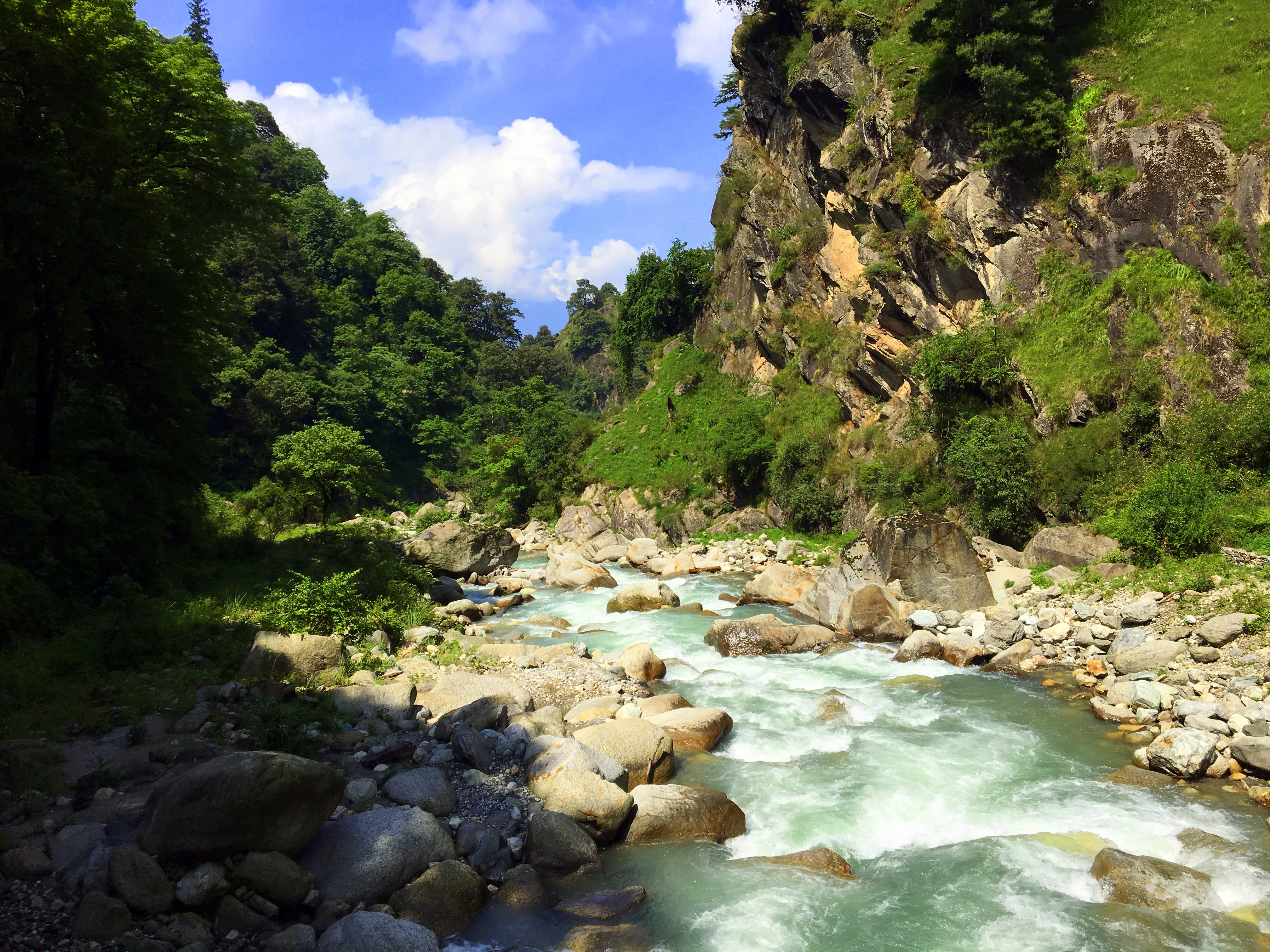 Tirthan River flowing majestically in GHNP (Great Himalayan National Park)